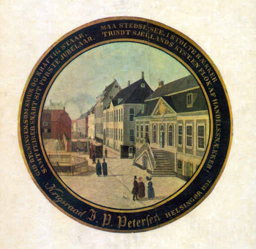 A ceremonial target from the local shooting society showing the Custom House Square in Helsingør, Denmark. Buildings visible include the Øresund Custom House (demolished), Stephen Hansen Mansion and Classen Mansion.